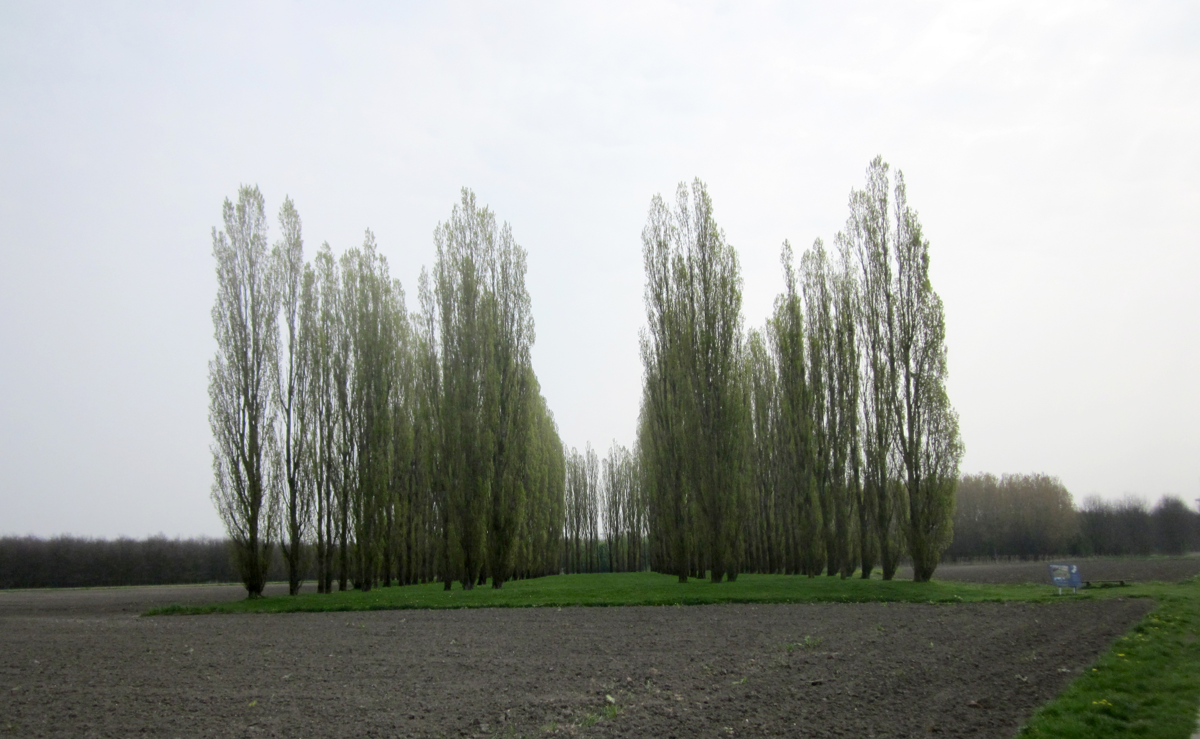 Landart "De Groene Kathedraal" (The green catherdral) made by Marinus Boezem between 1987 and 1996 at the Katherdralenbos at the Tureluurweg in Almere. There's also a negative form in the same forest.